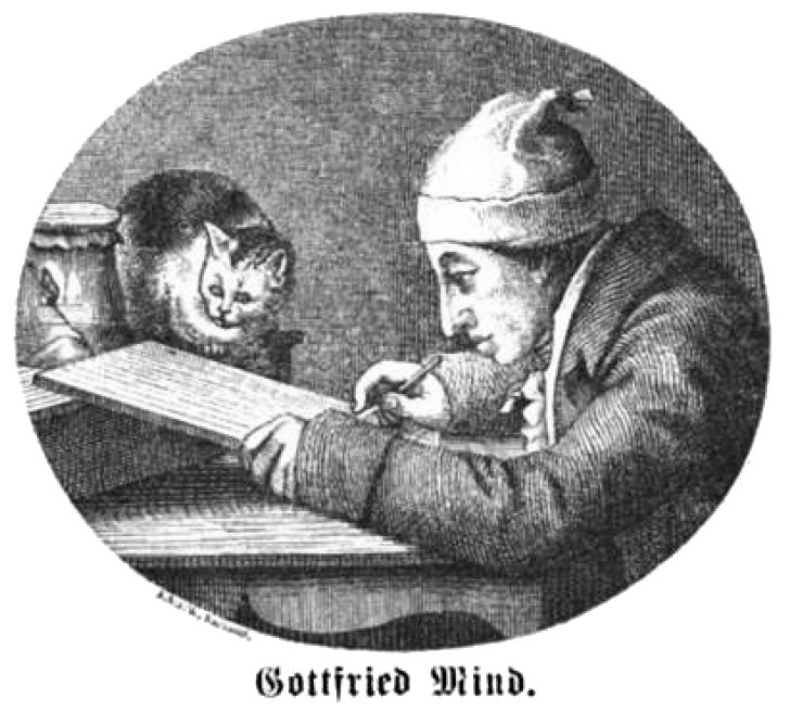 no caption